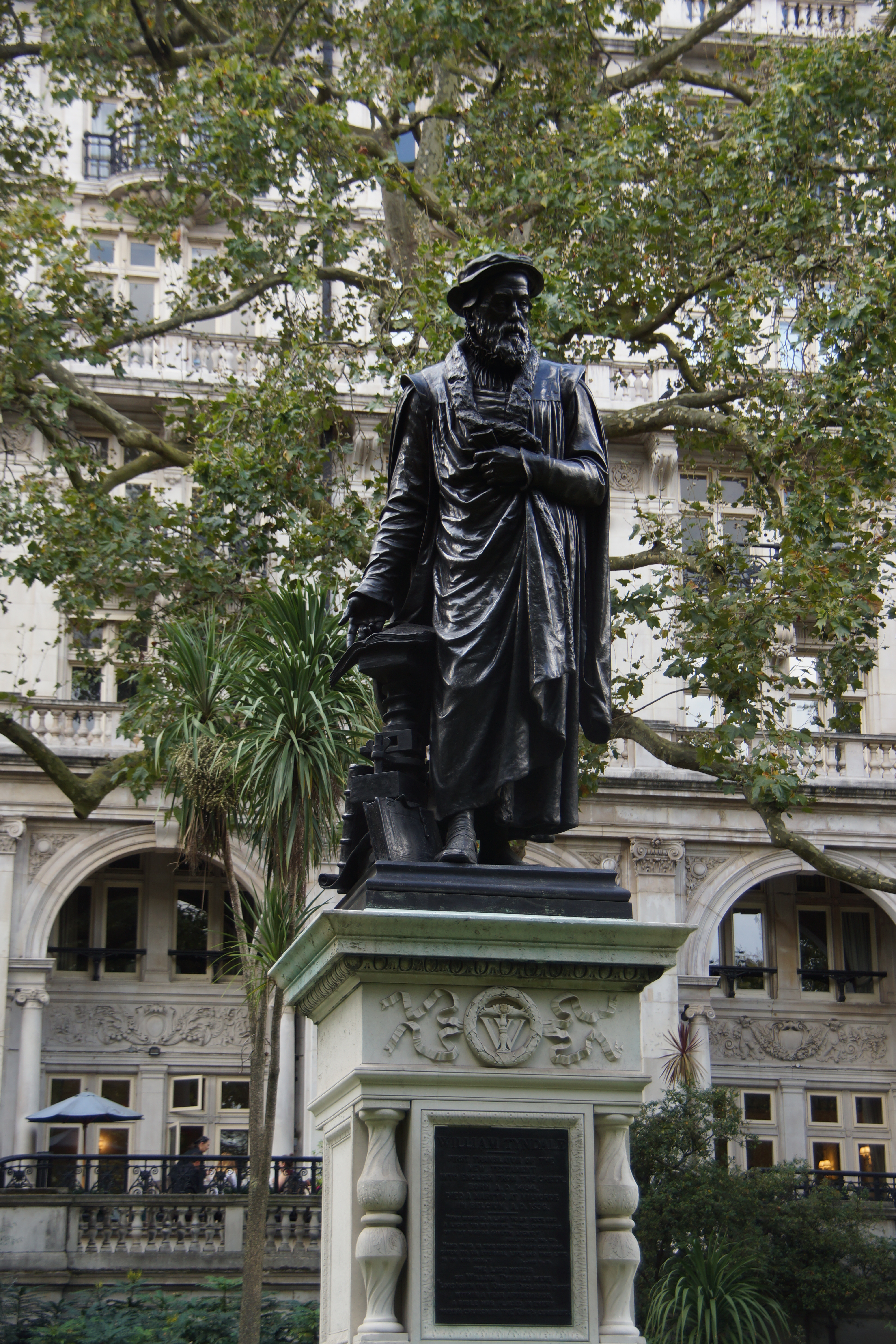 Statue of William Tyndale in the Victoria Embankment Gardens, London